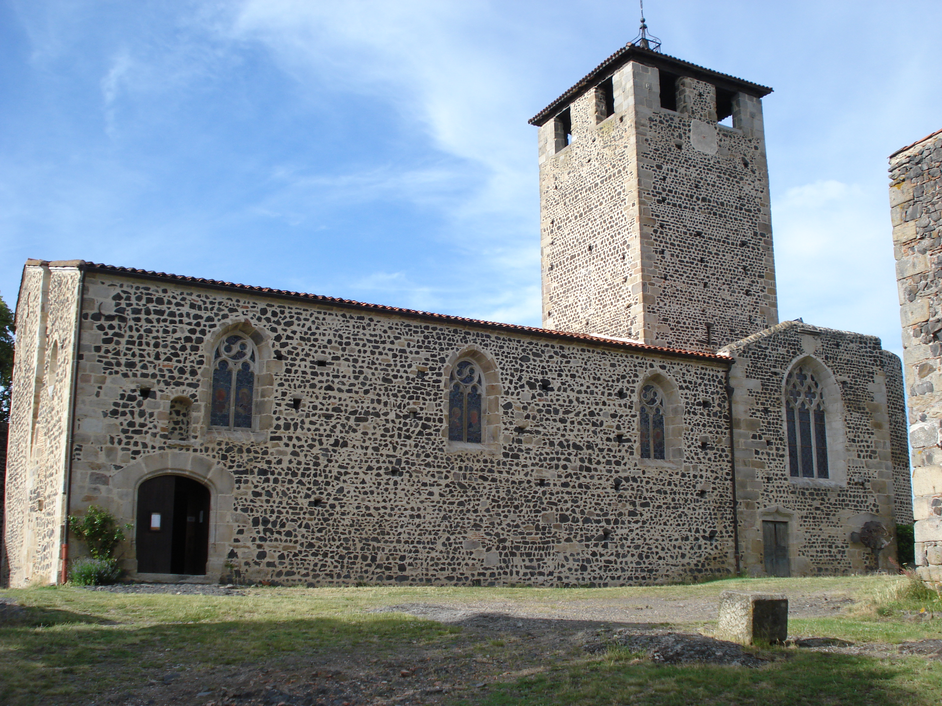 Montverdun (Loire, Fr), south side of the church.